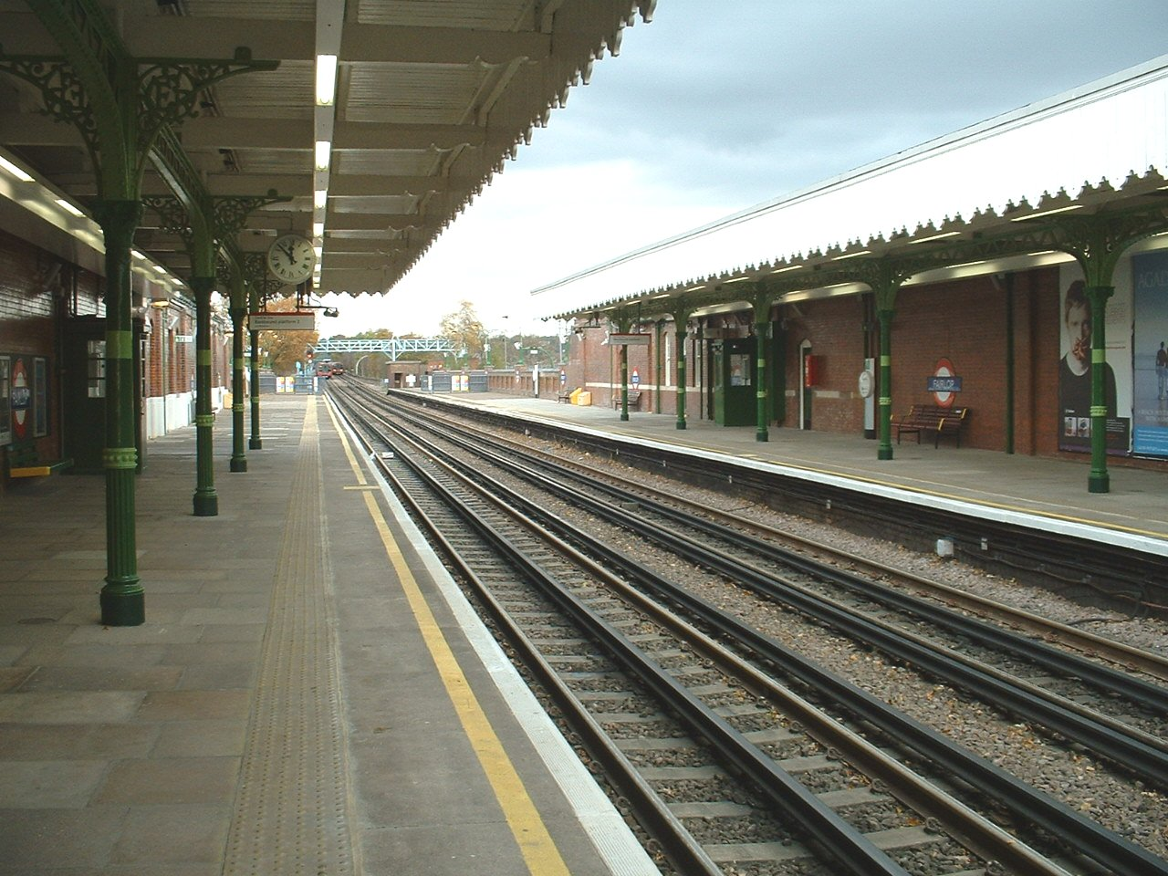 Fairlop tube station looking north. Sunil060902, 11th November 2007.